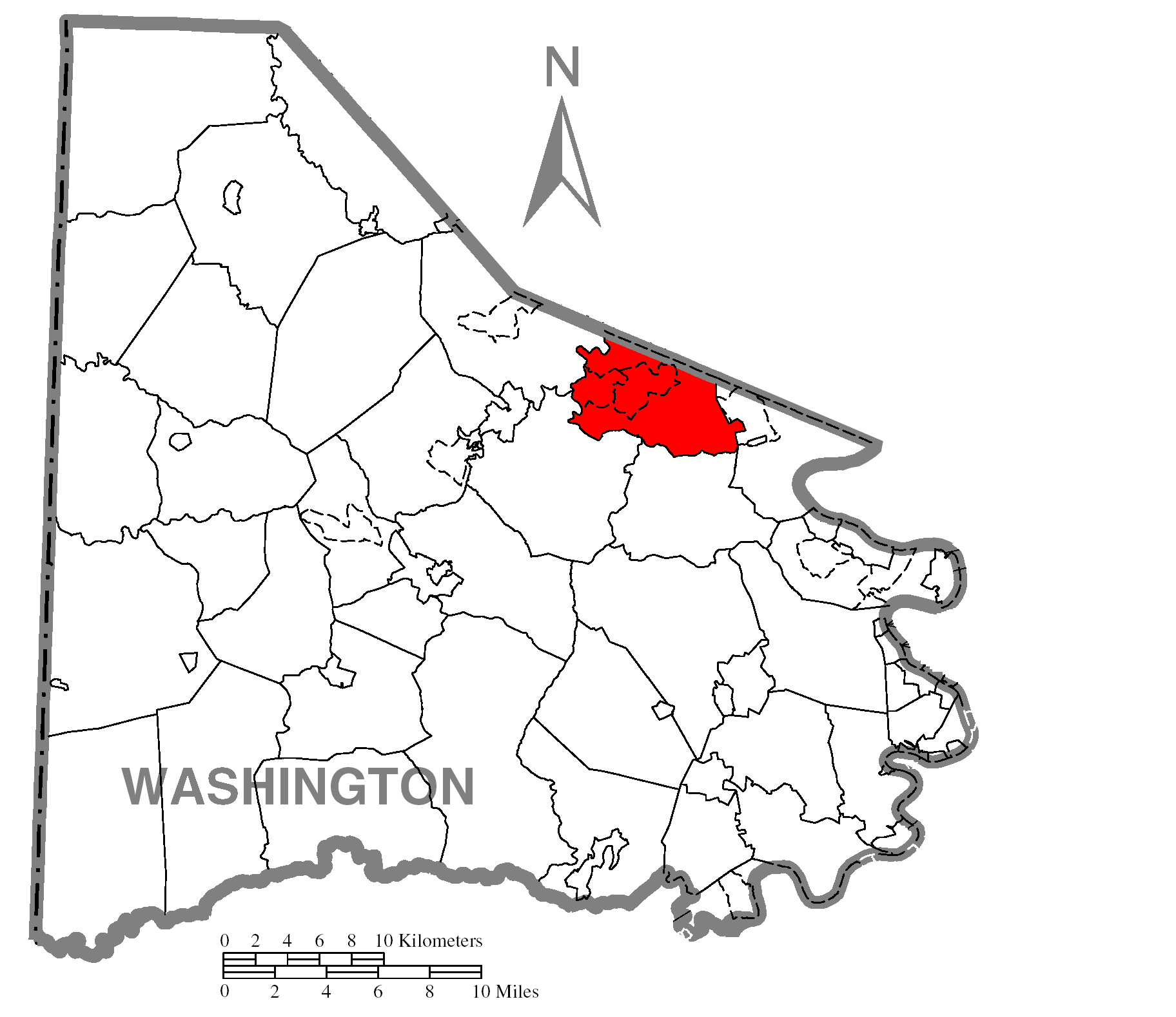 Map of Washington County higlighting Peters Township.